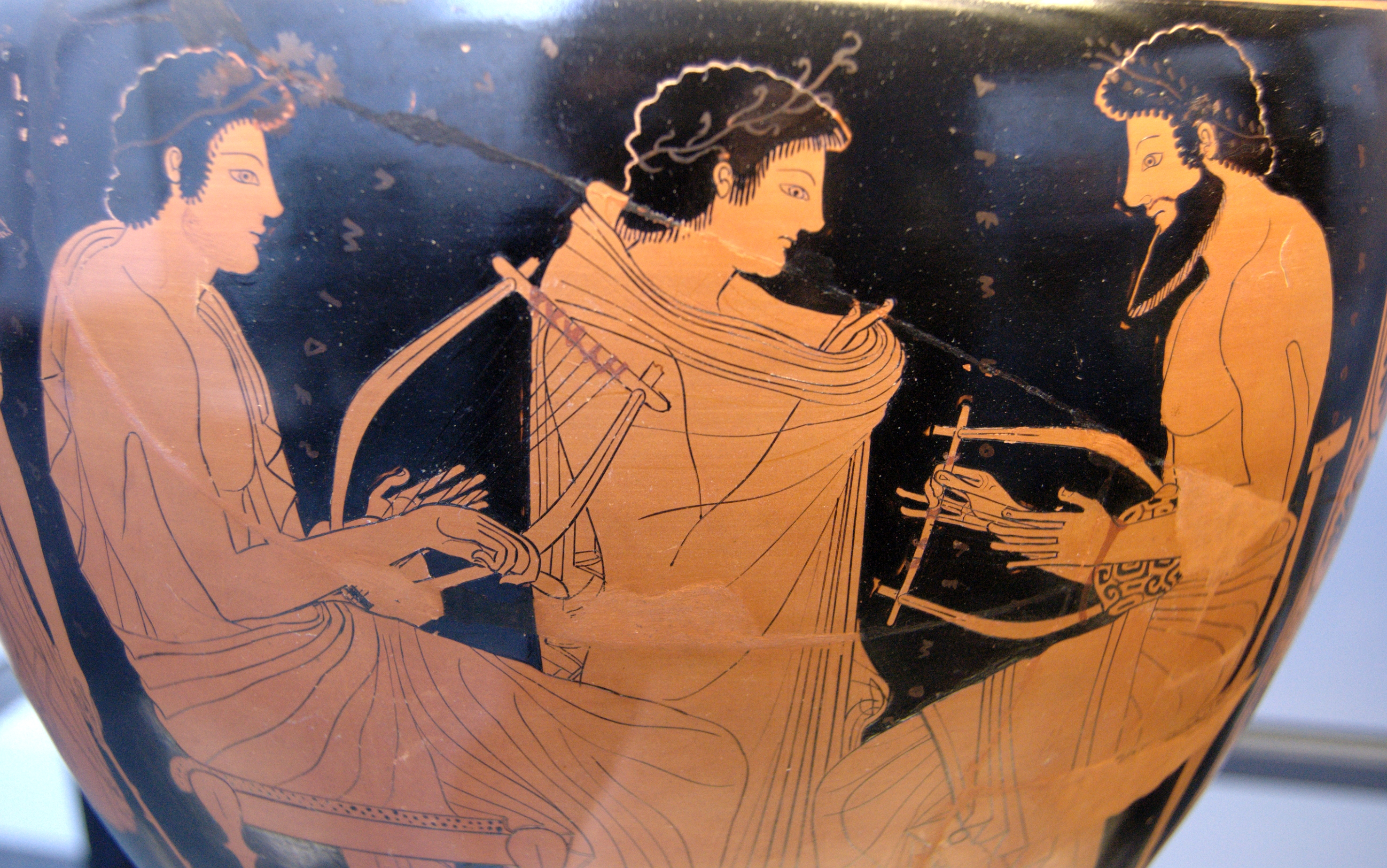 Music lesson: teacher (right, inscription: ΣΜΙΚΥΔΟΣ) and his student (left, ΕΥΔΥΜΙΔΕΣ). Between them, a boy (ΤΛΕΜΠΟΜΕΝΟΣ) narrates a text. Attic red-figure hydria, ca. 510 BC. From Vulci.